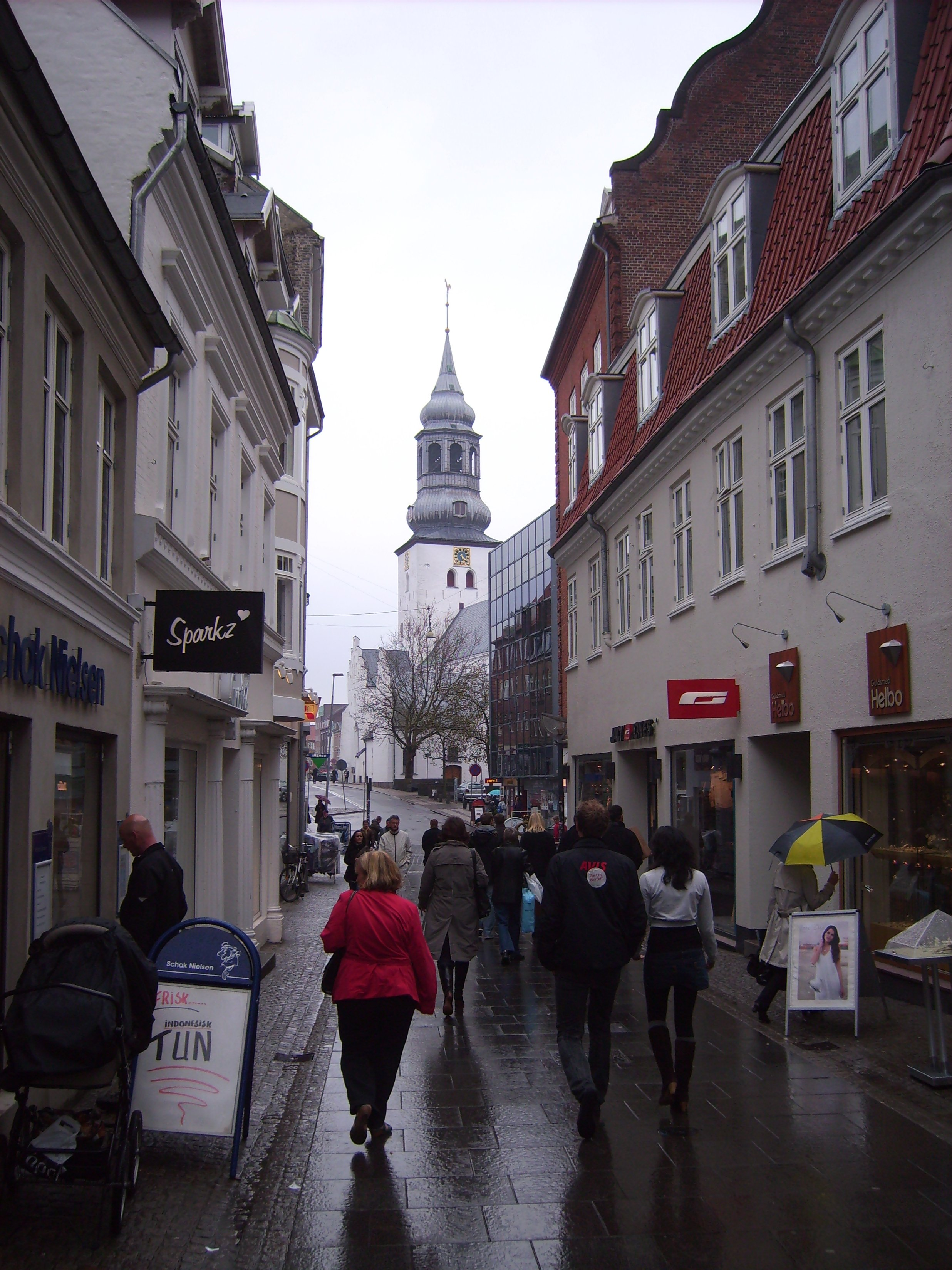 Budolfi Church in Aalborg, Denmark.